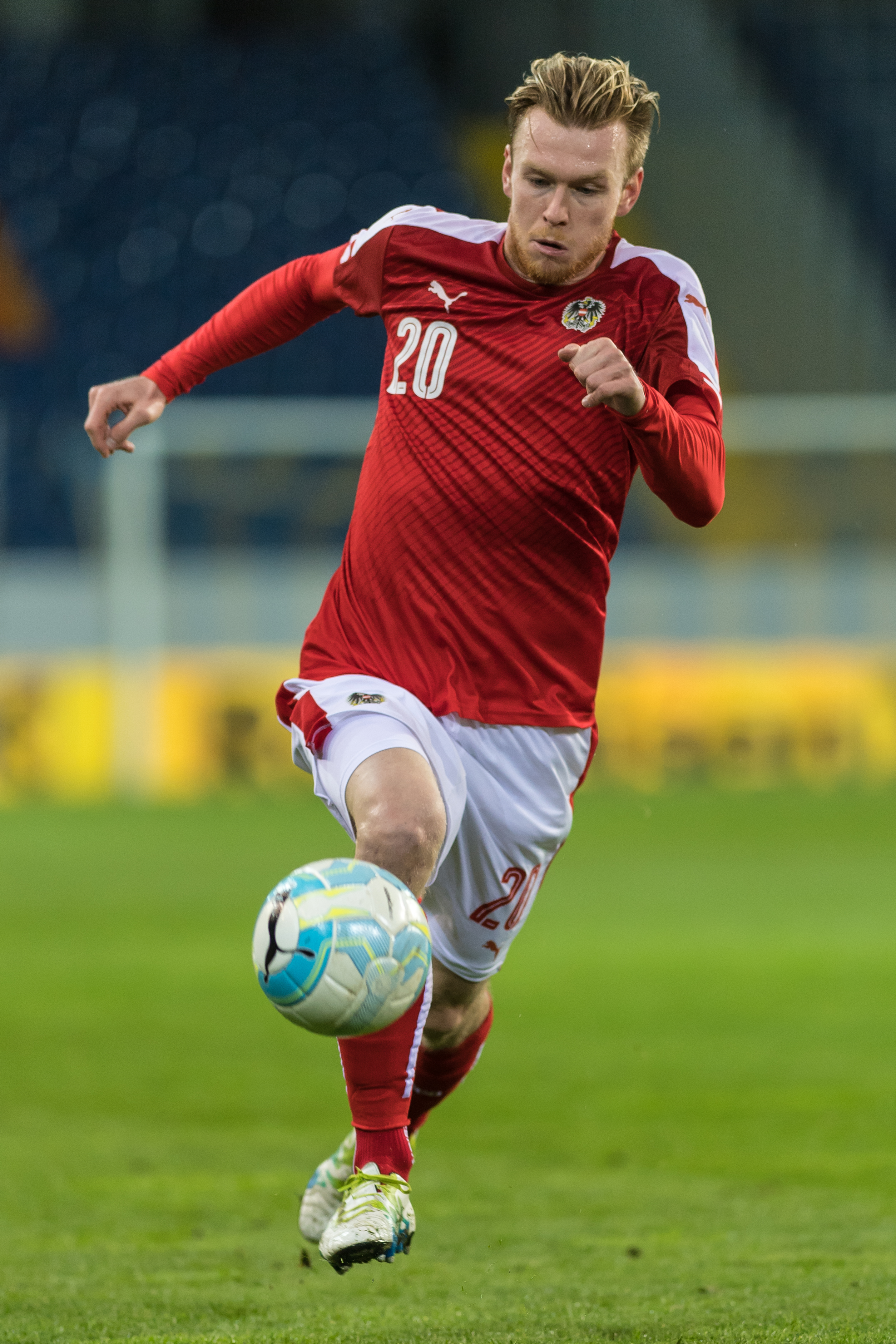 European Under-21 Championship 2017 Qualifying Round, Austria vs Germany, 11/10/2016, St. Polten